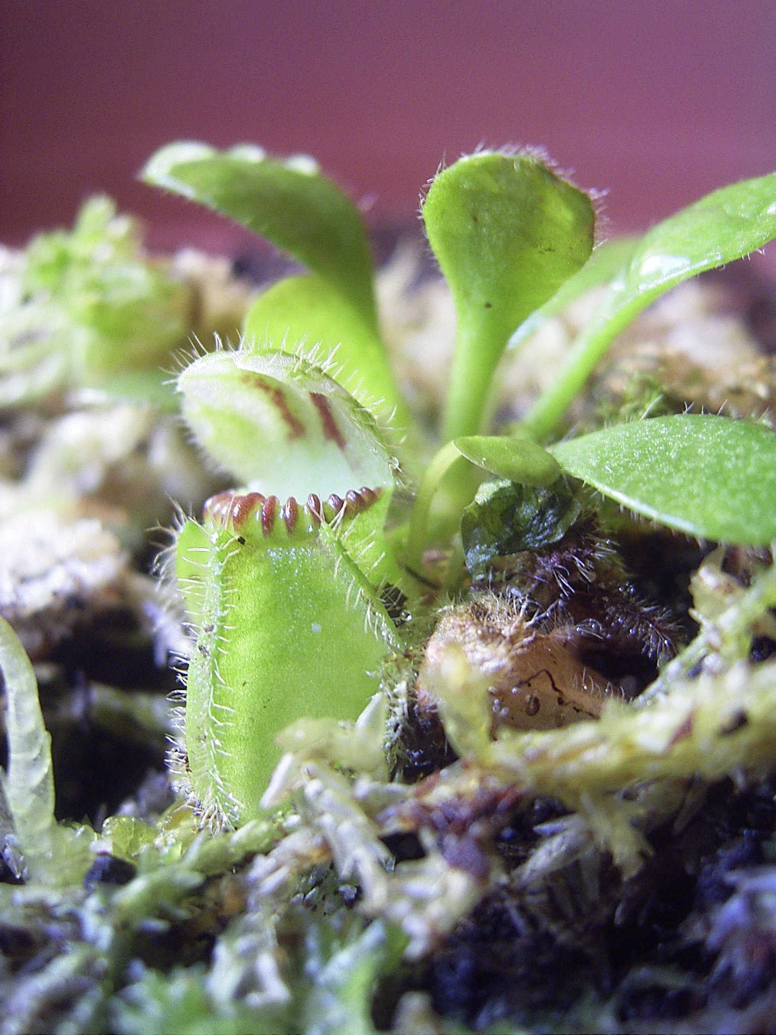 CephalotusFollicularis Author: Denis Barthel